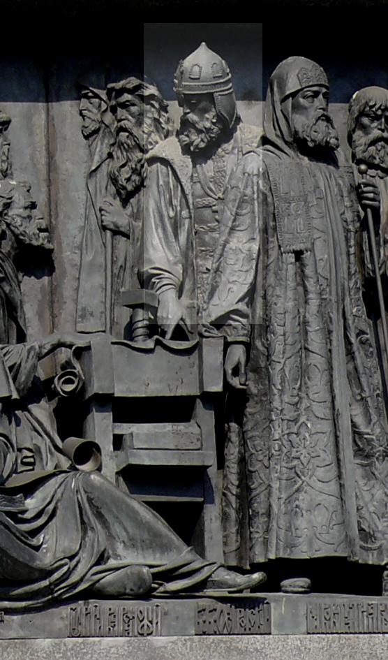 Konstantin Ostrojsky on the Monument «Millennium of Russia» in Veliky Novgorod